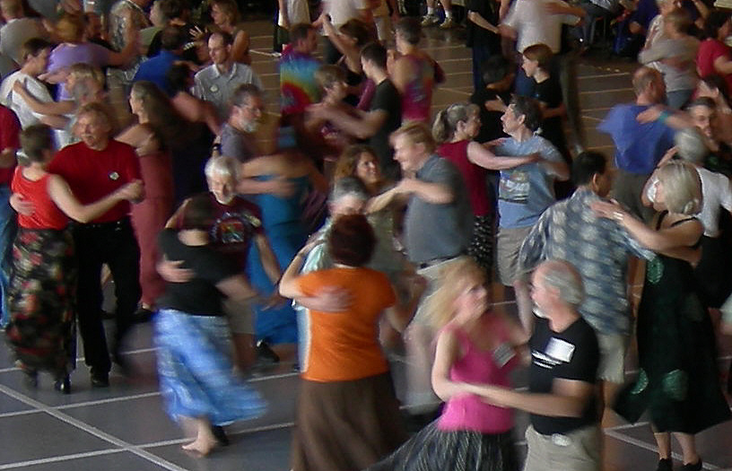 Folk dancing in Seattle Center's Fisher Pavilion during Northwest Folklife Festival.